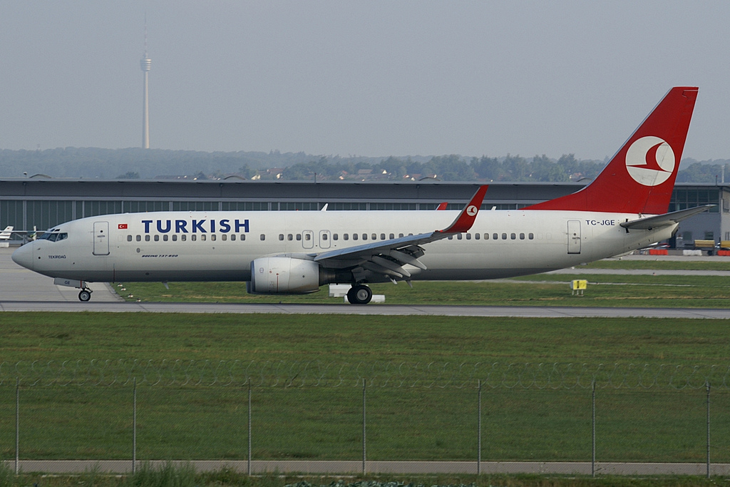 Turkish Airlines Boeing 737-800 TC-JGE, destroyed during crash of Turkish Airlines Flight 1951